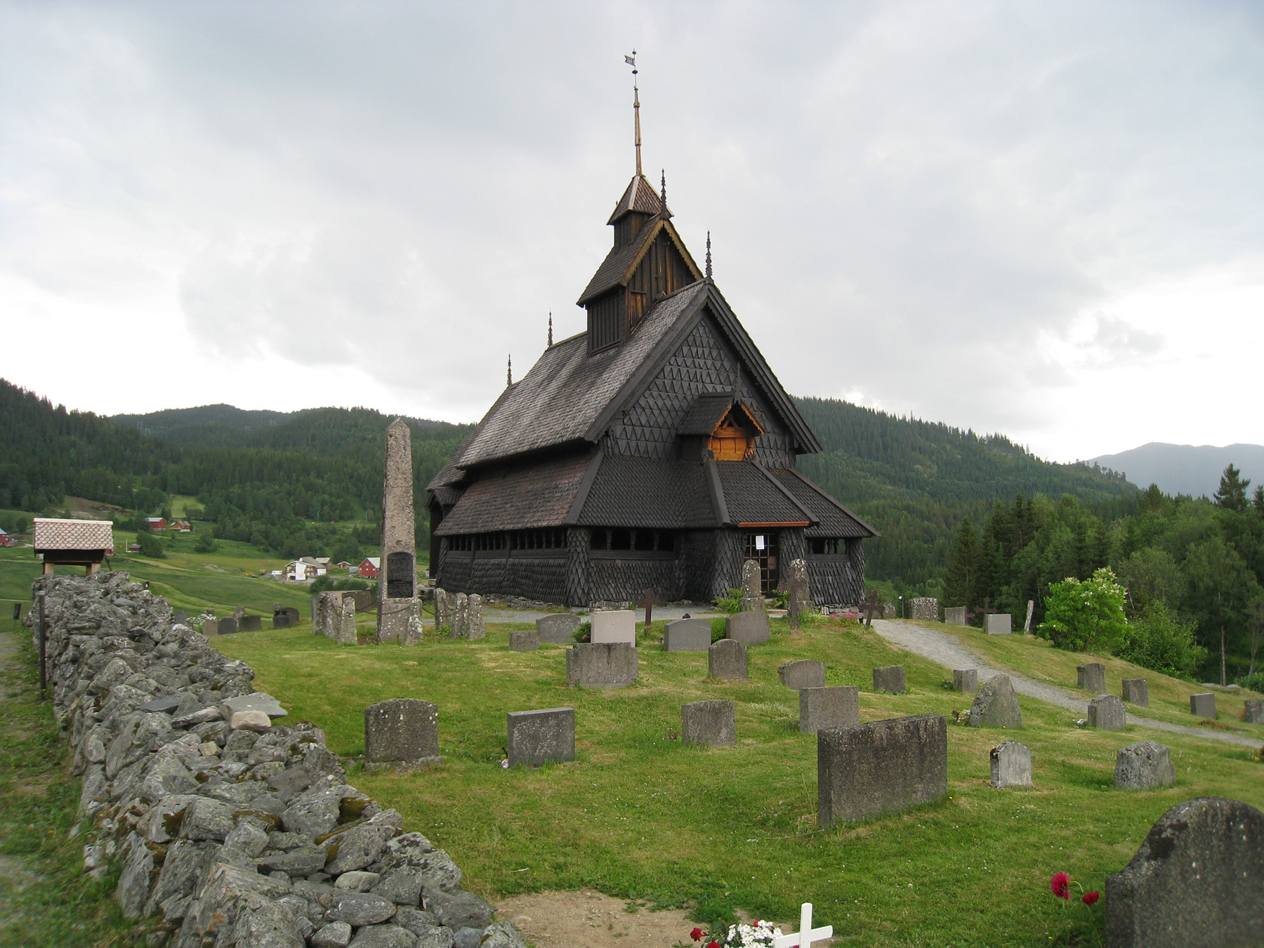 Eidsborg stavechurch in Telemark, Norway